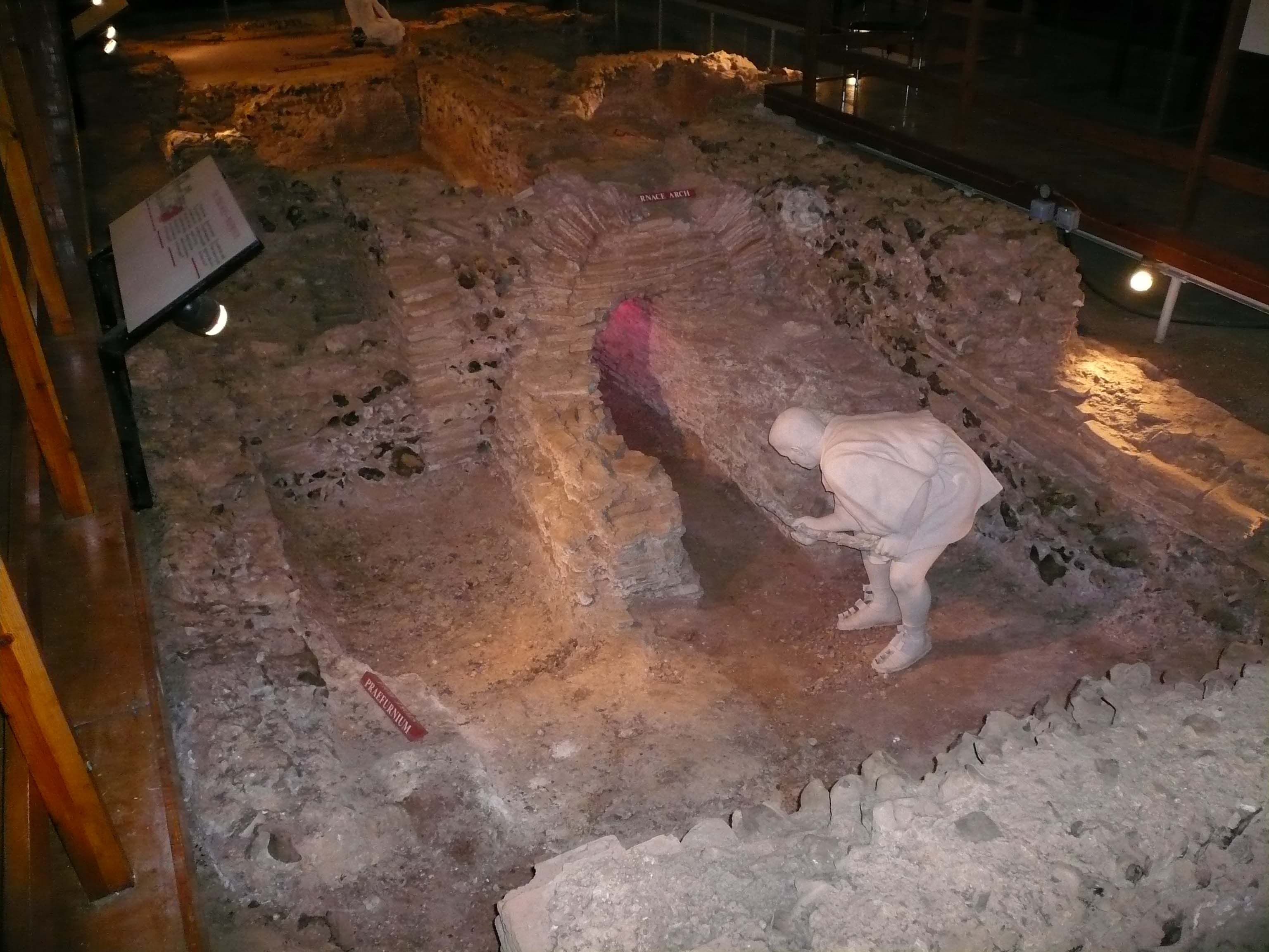 Photograph of Welwyn Roman baths (May 2007)